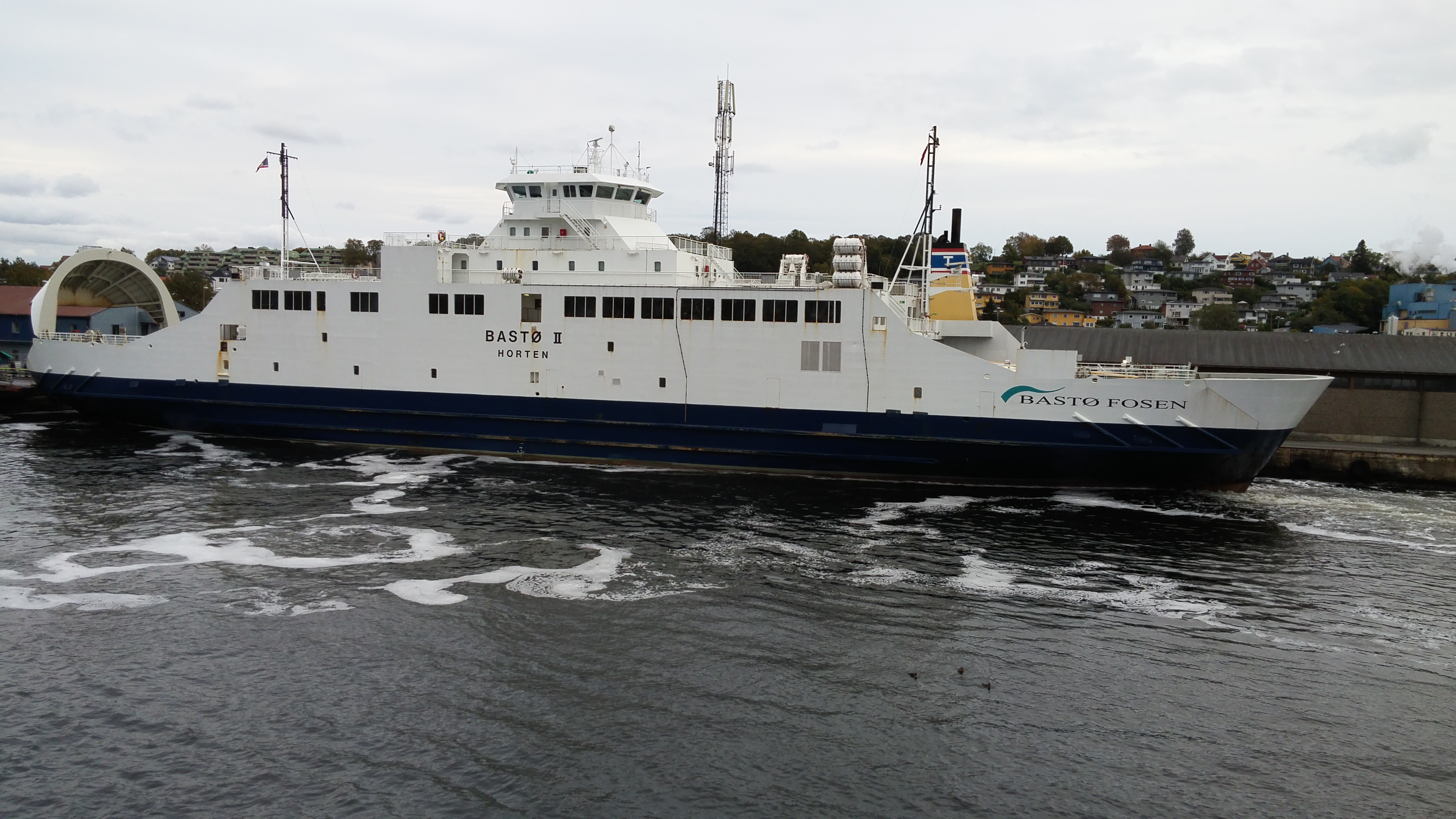 Bastø II in 2015